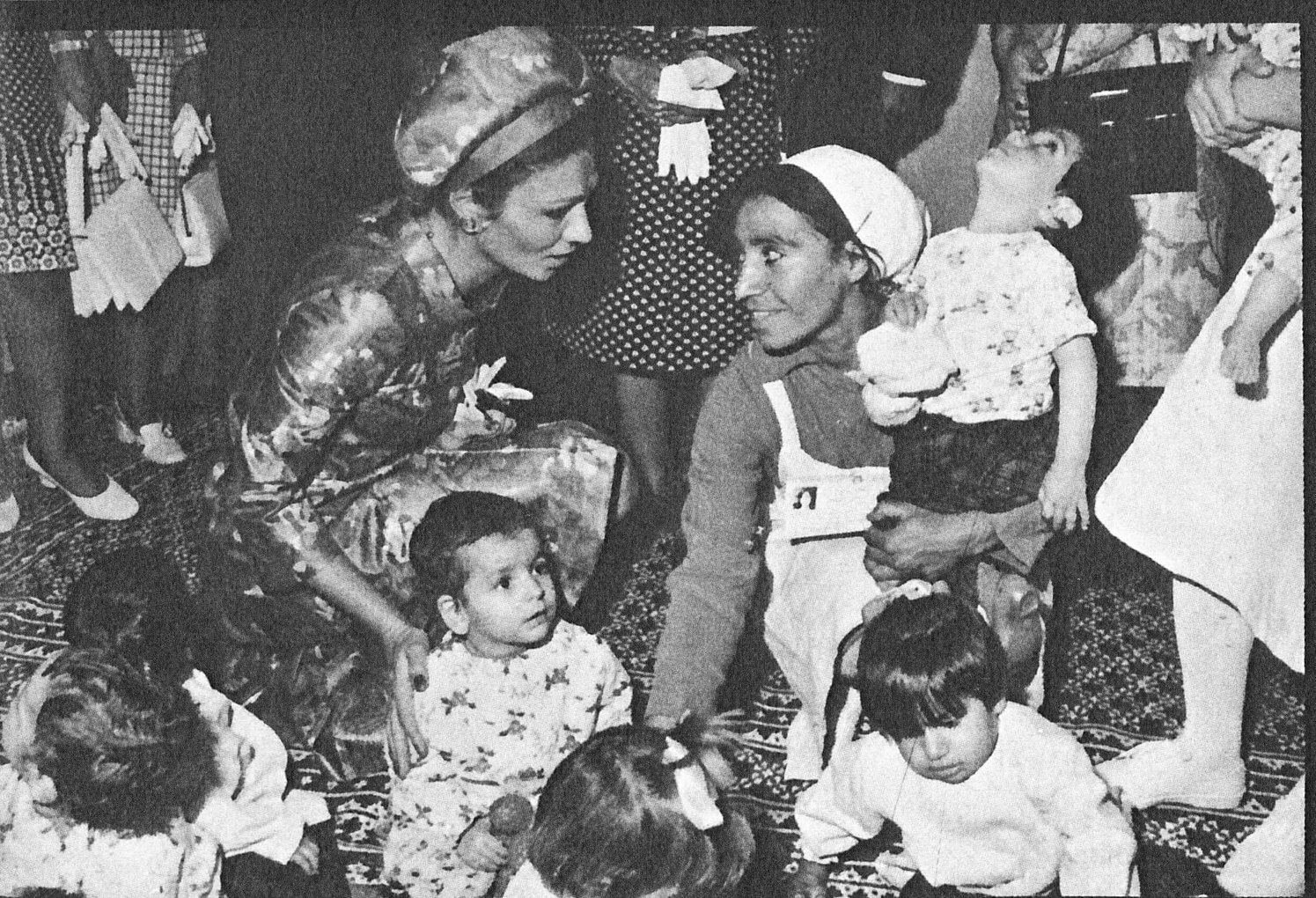 Shahbanu Farah Pahlavi visit her own orphanage